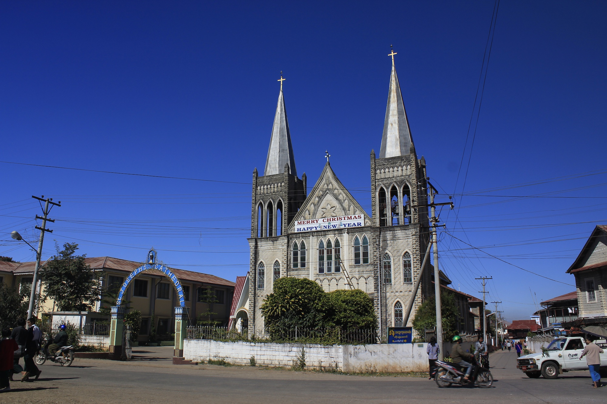 Saint Josephs Cathedral is seen in Taunggyi, Myanmar on 21 December 2010.မြန်မာဘာသာ: စိန့် ဂျိုးဇက် ဘုရားရှစ်ခိုးကျောင်းကို တောင်ကြီးမြို့၊ မြန်မာနိုင်ငံတွင် ဒီဇင်ဘာလ ၂၁ ရက်၊ ၂၀၁၀ ခုနှစ်က တွေ့မြင်ရစဉ်